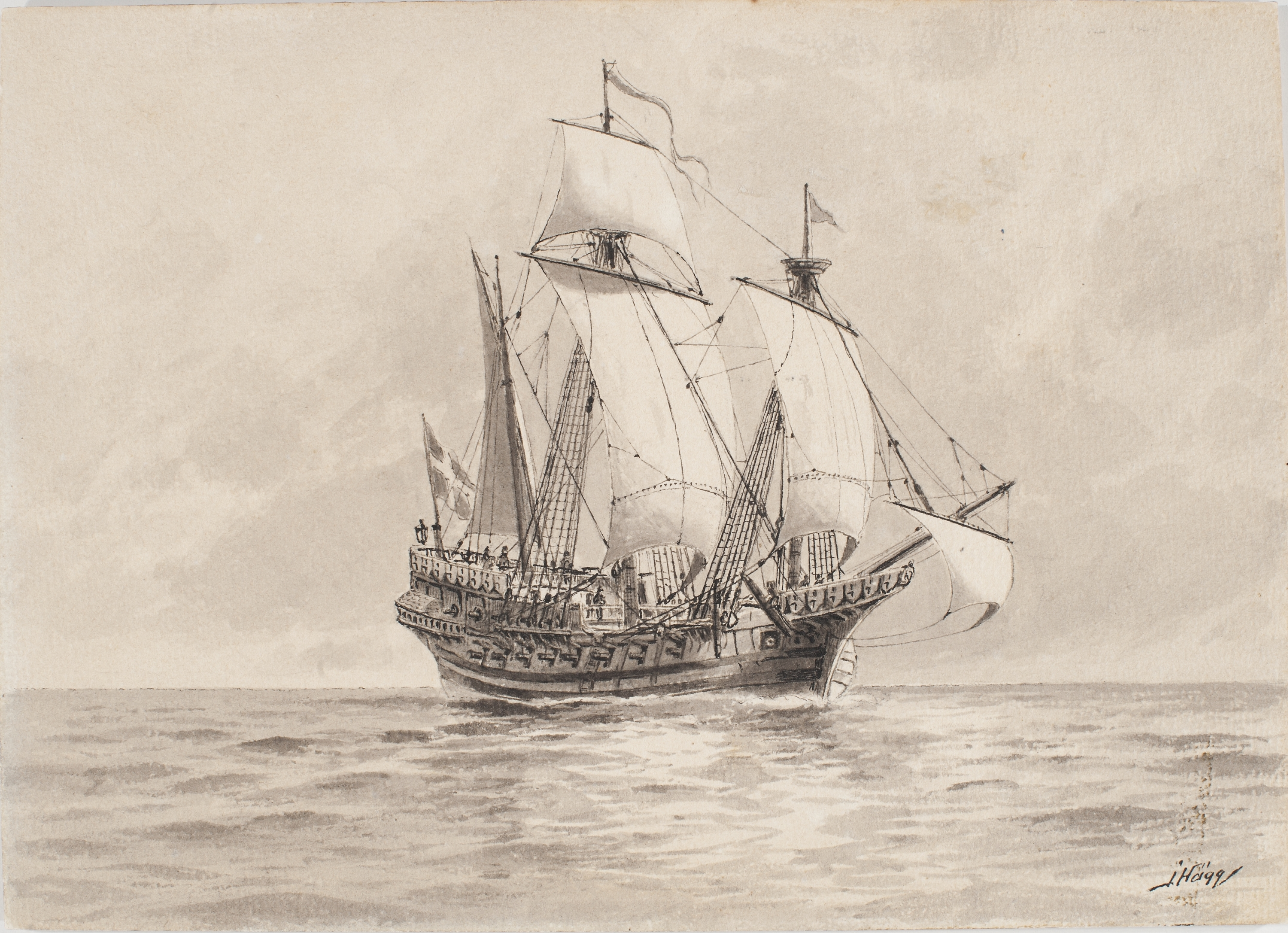 Reconstruction of "Lybska Svan". Swedish Warship 1522-1525. 2016: Hägg does not name this ship as Lybska Svan but as "a warship from the days of Gustav Vasa, 1522".